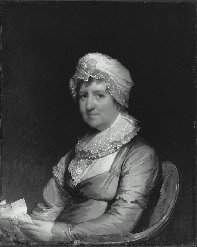 Mrs. Ebenezer Battelle (Anna Durant). 1810. By Gilbert Stuart, American, 1755–1828. 83.5 x 67.31 cm (32 7/8 x 26 1/2 in.). Oil on panel. Museum of Fine Arts, Boston.